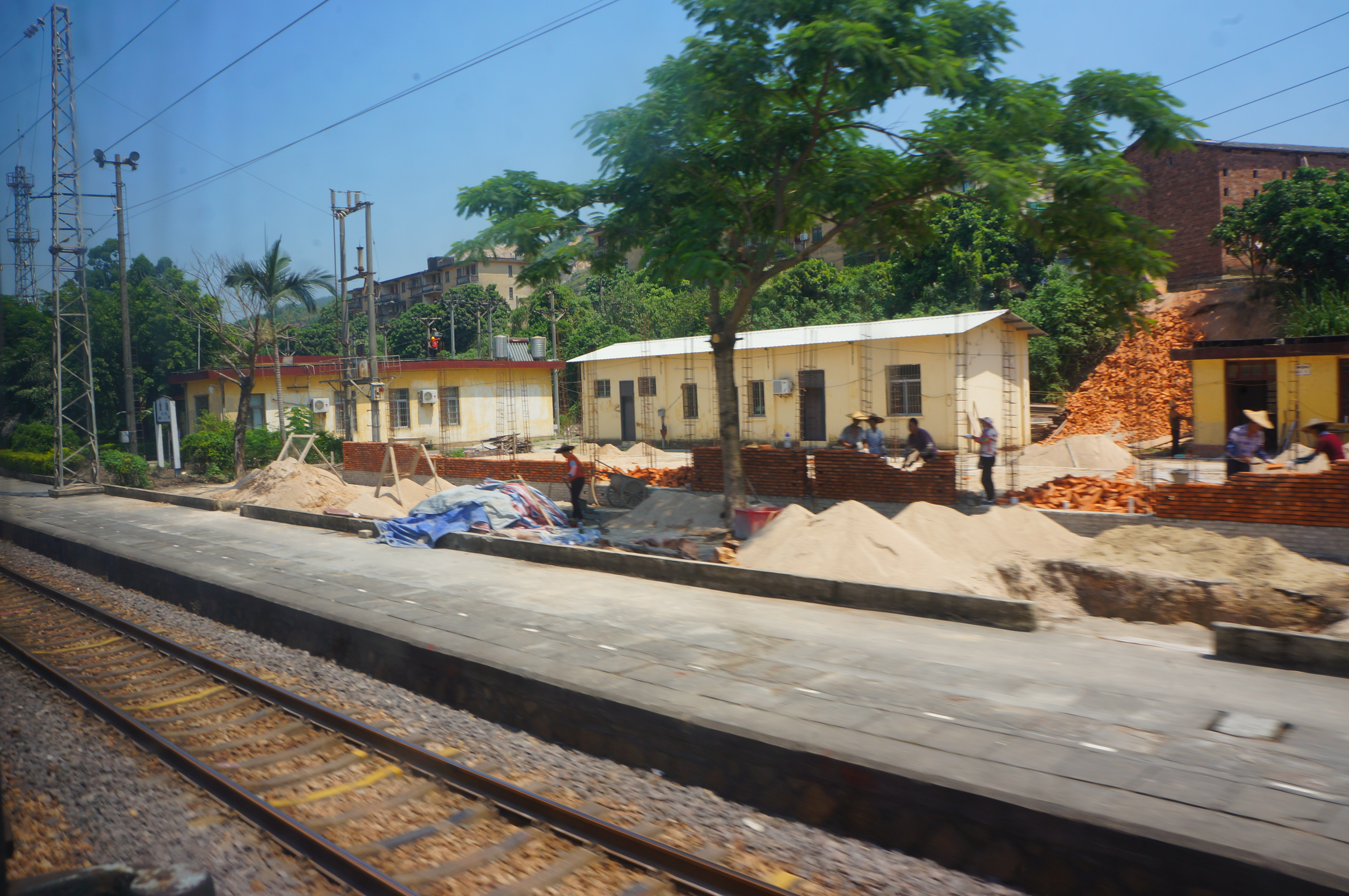 Liong Hai Station. Next Station, Chiong Chiu East Station. Interchange Station for the Chiong Chiu North Line.